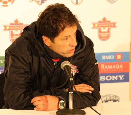 A picture of Toronto FC coach Preki, taken at a press conference after a 0-0 draw with Vancouver Whitecaps in Vancouver on May 19/2010. Photo by Lucas Teodoro da Silva.